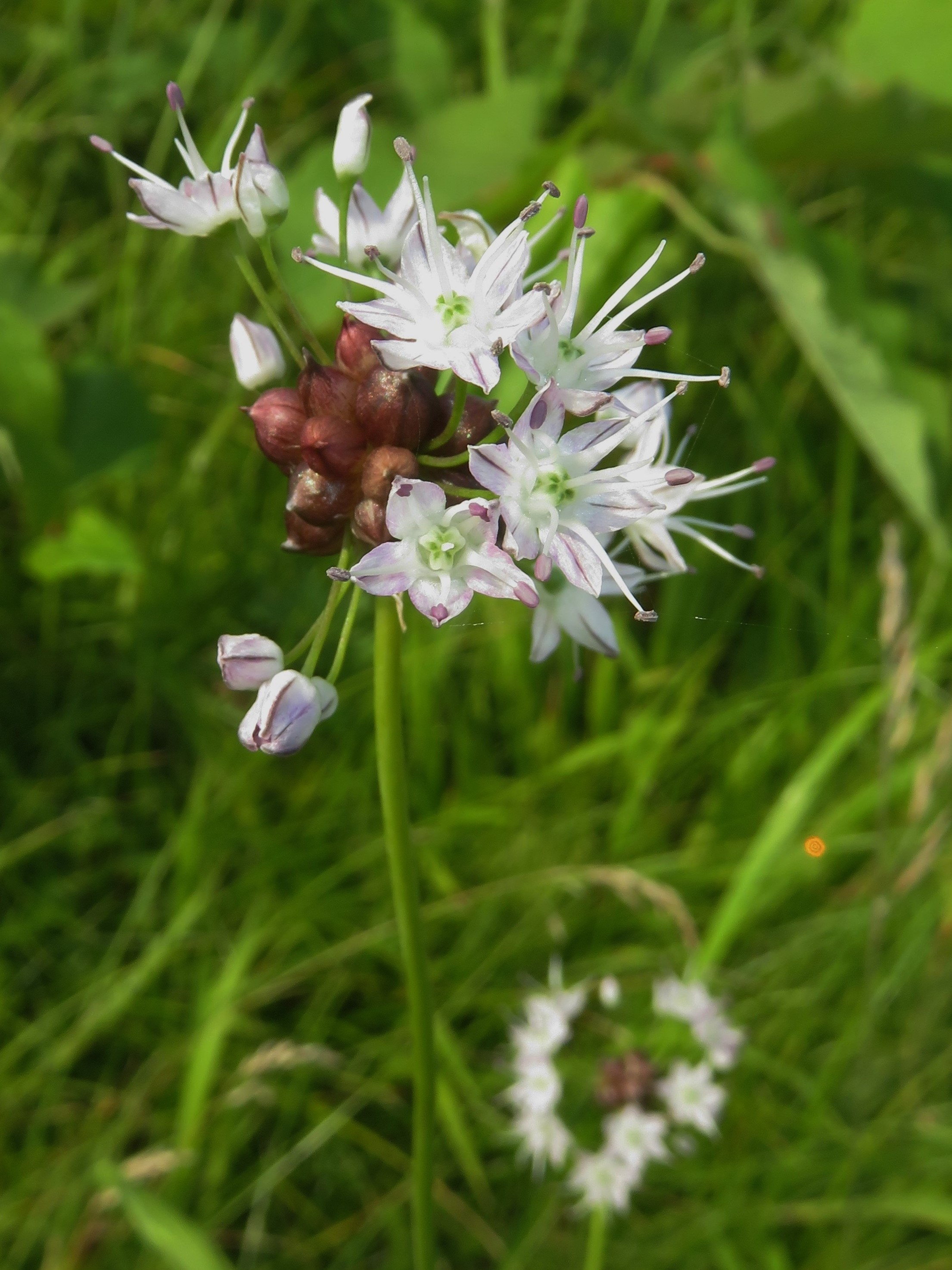 Allium macrostemon, Tanesashi Coast, Aomori pref., Japan